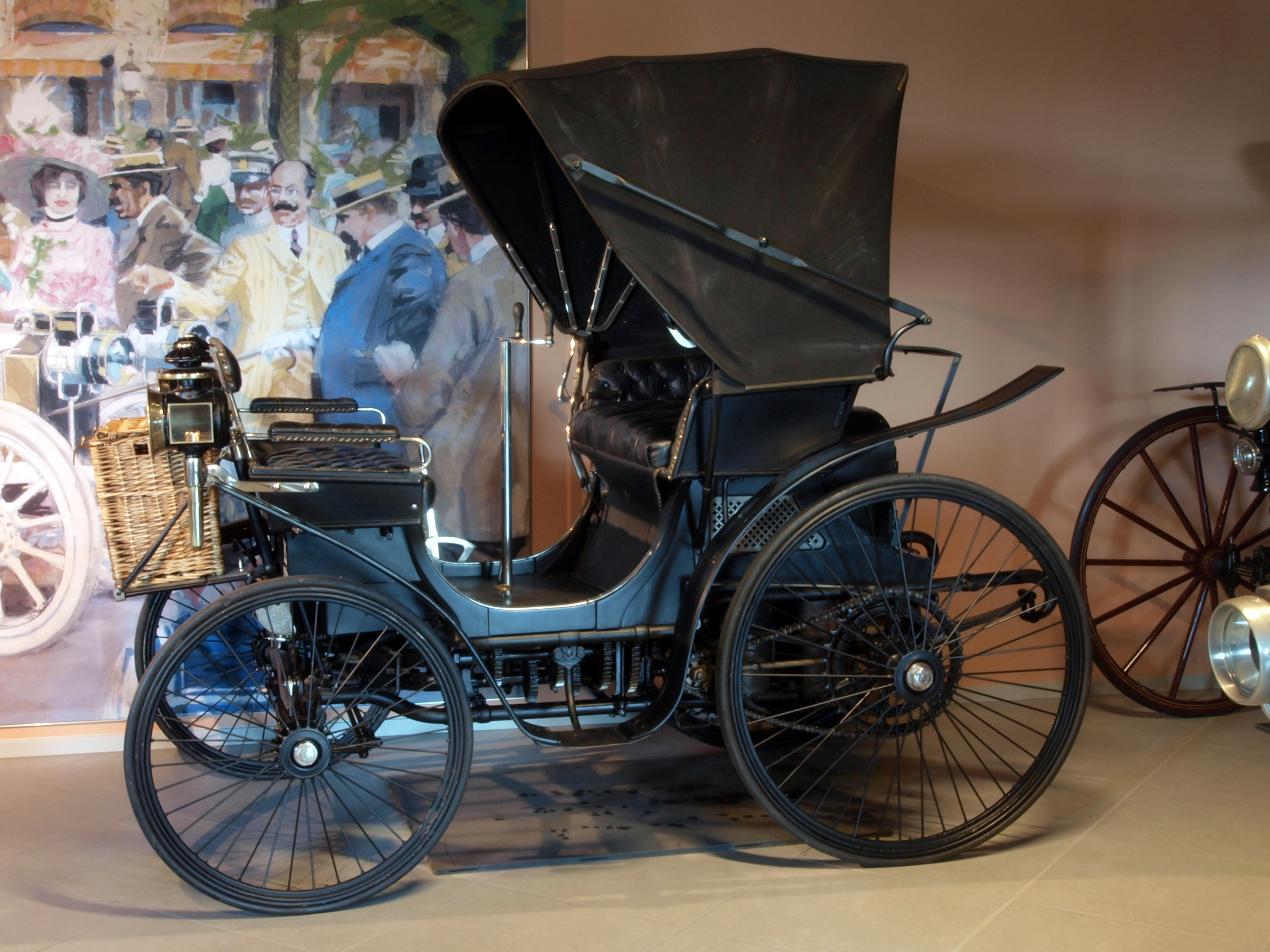 Photographed at the Louwman museum, The Netherlands.